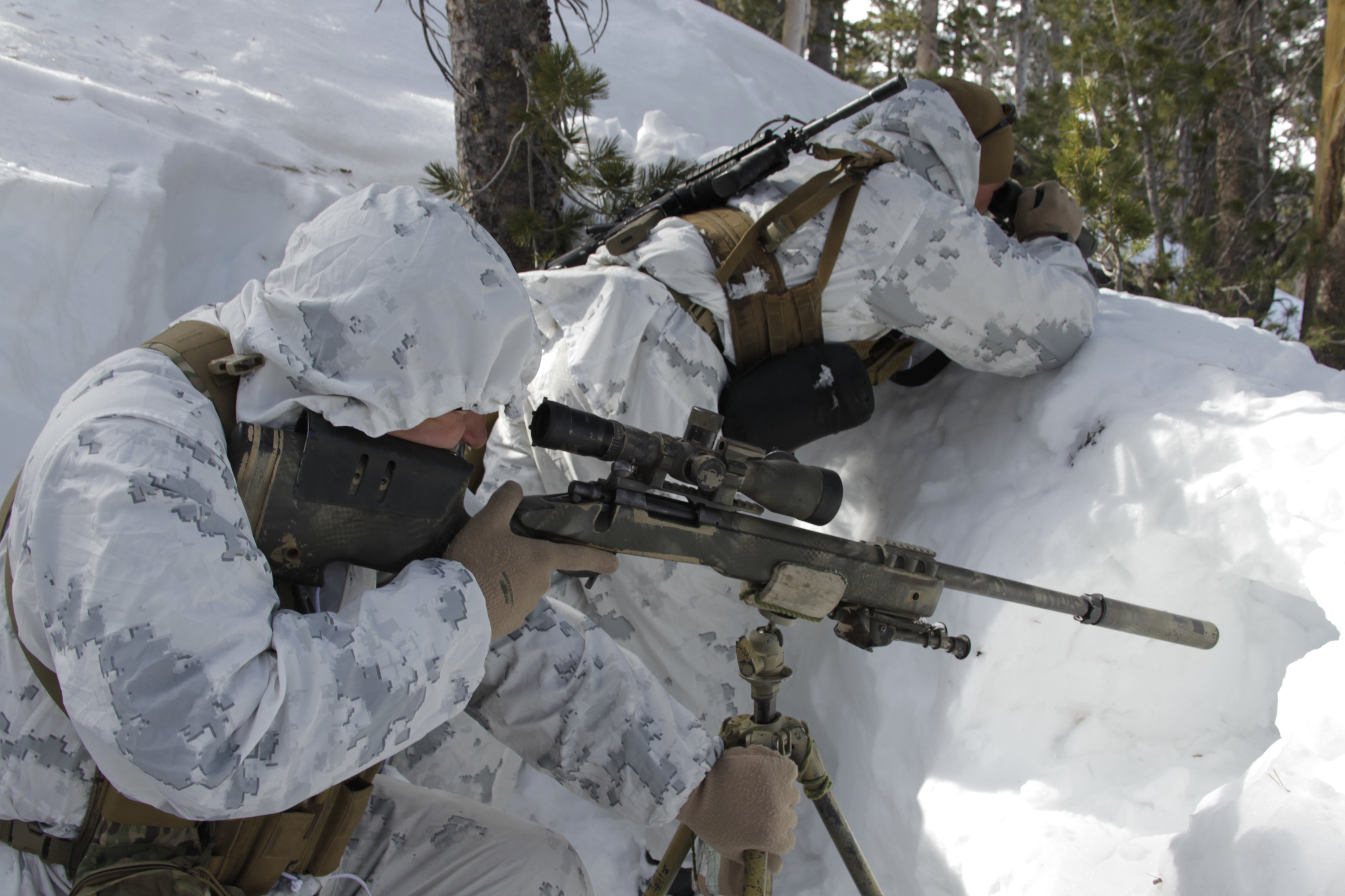 A shooter and his spotter prepare a shot, Jan. 24, 2011, during the Mountain Scout Sniper Course at Marine Corps Mountain Warfare Training Center, Bridgeport, Calif.